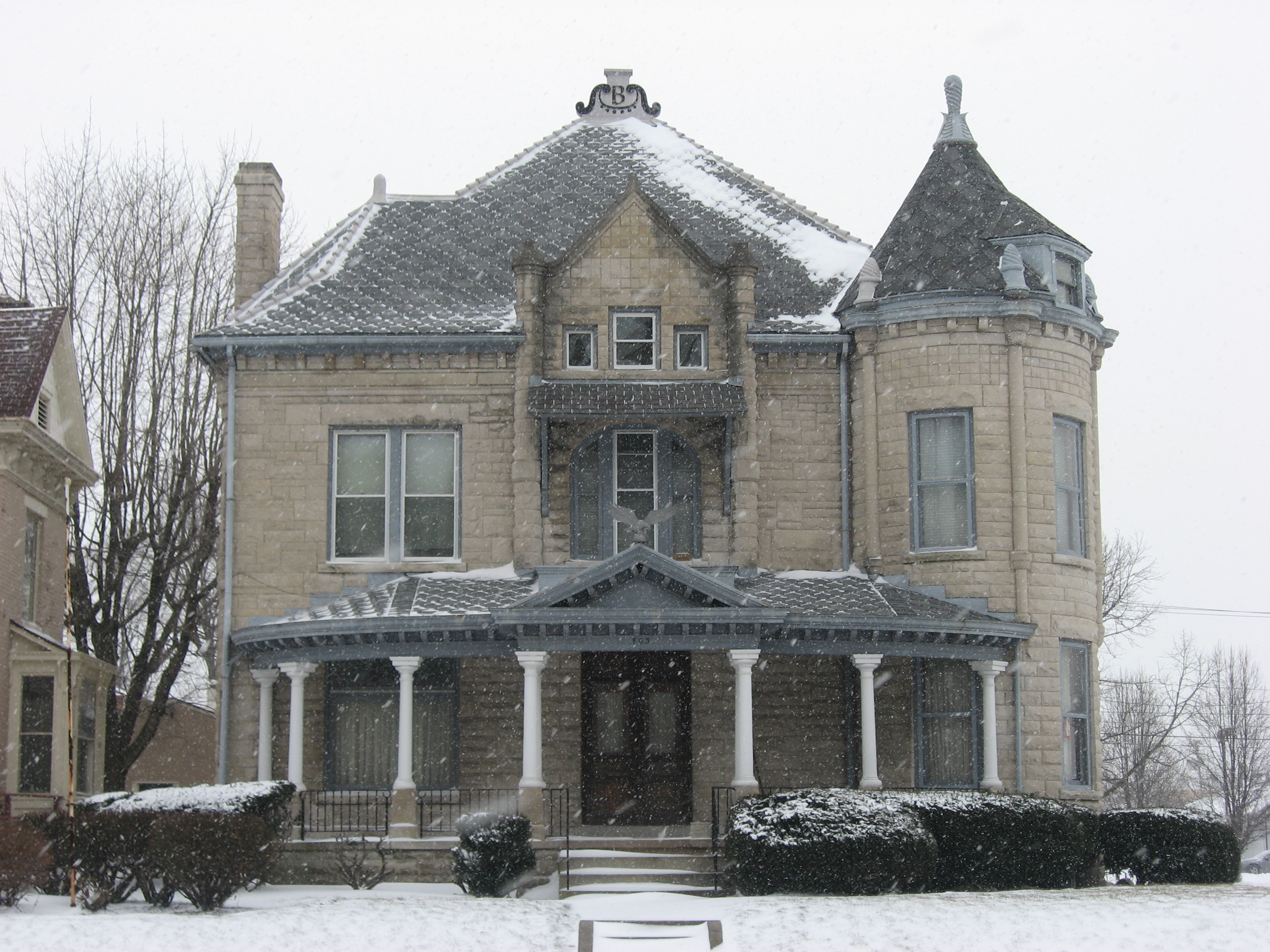 Front of the Ferguson House, located at 803 E. Broadway in Logansport, Indiana, United States. Built in 1895, it is listed on the National Register of Historic Places.